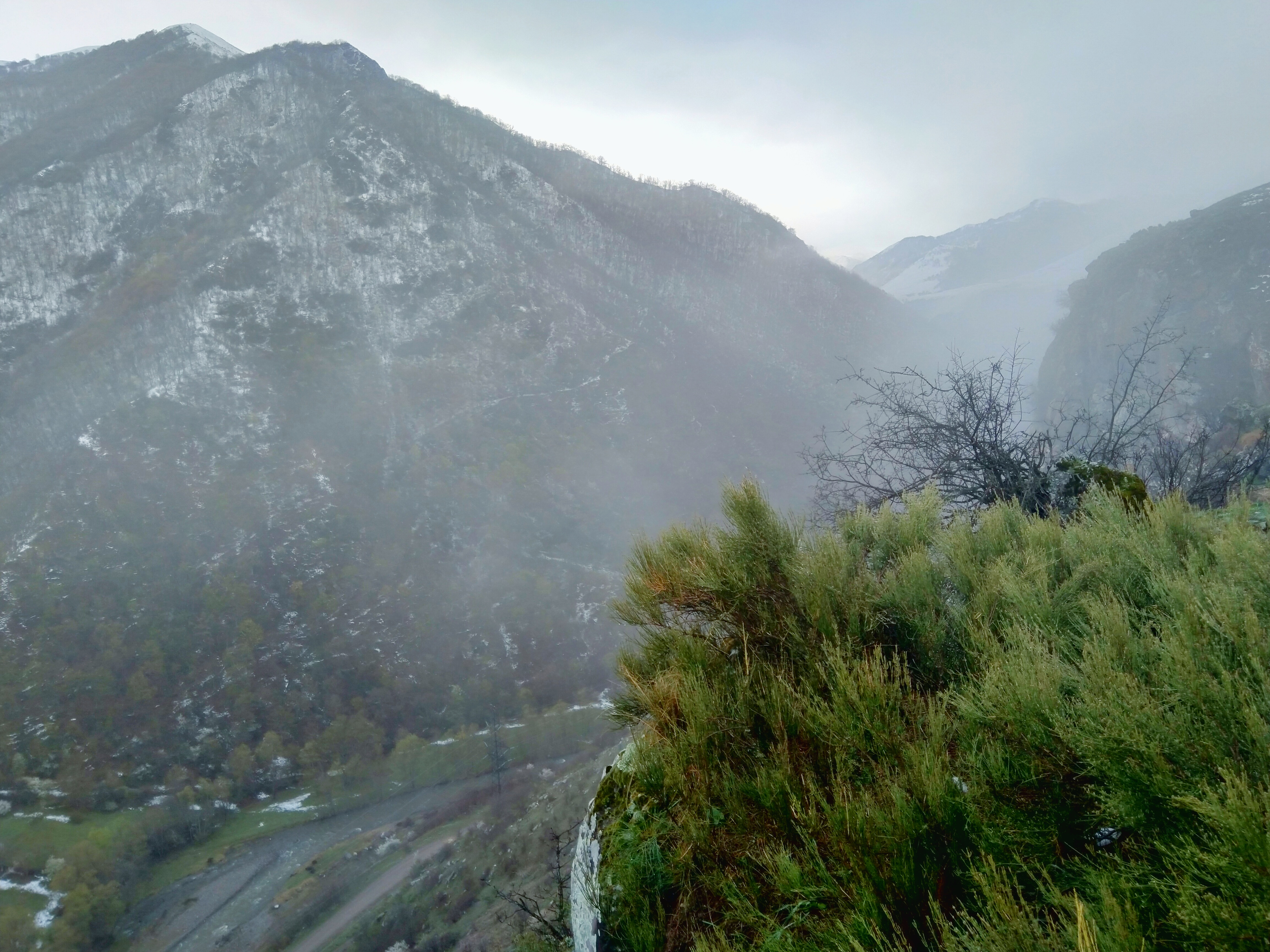 Ephedra major shrub growing on the top of the cliffs at the gorge of Tartar river, view from Karvachar